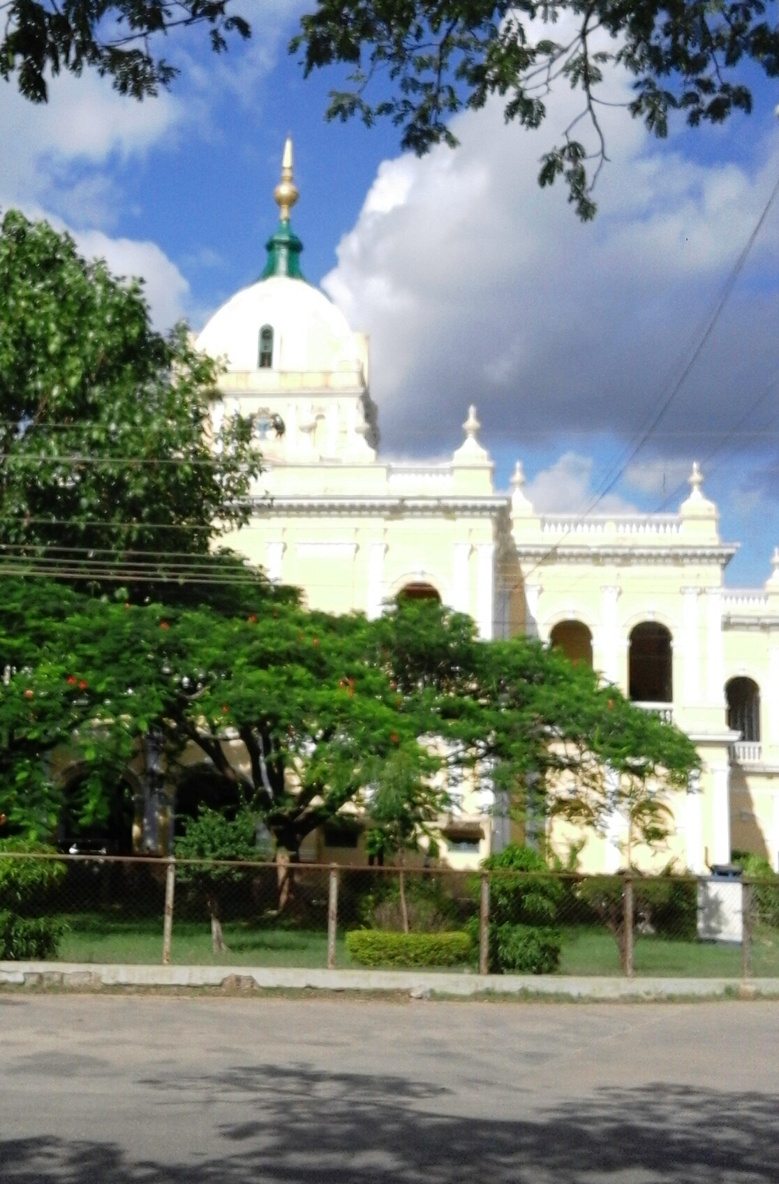 Mysore city, Karnataka state, India